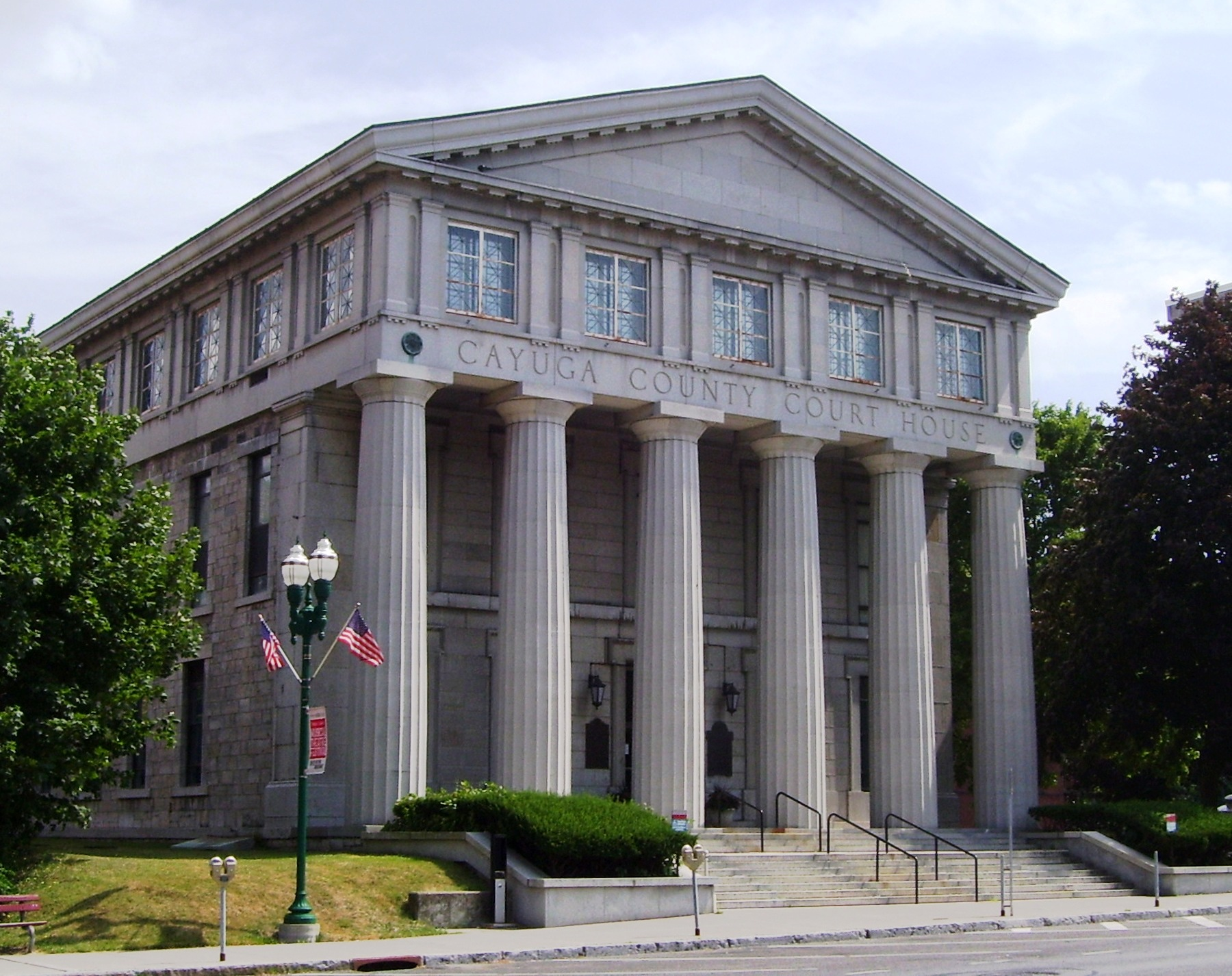 The Cayuga County Court House at 152 Genesee Street in Auburn New York was built in 1835–1836 and was designed by John I. Hagaman in the Greek Revival style. It was rebuilt and expanded in 1922–1924 after a fire destroyed everything but the front and side walls of the original building. The rebuilt courthouse was designed by Carl Tallman and Samuel Hillger, in the Neoclassical style. (Source: [1])